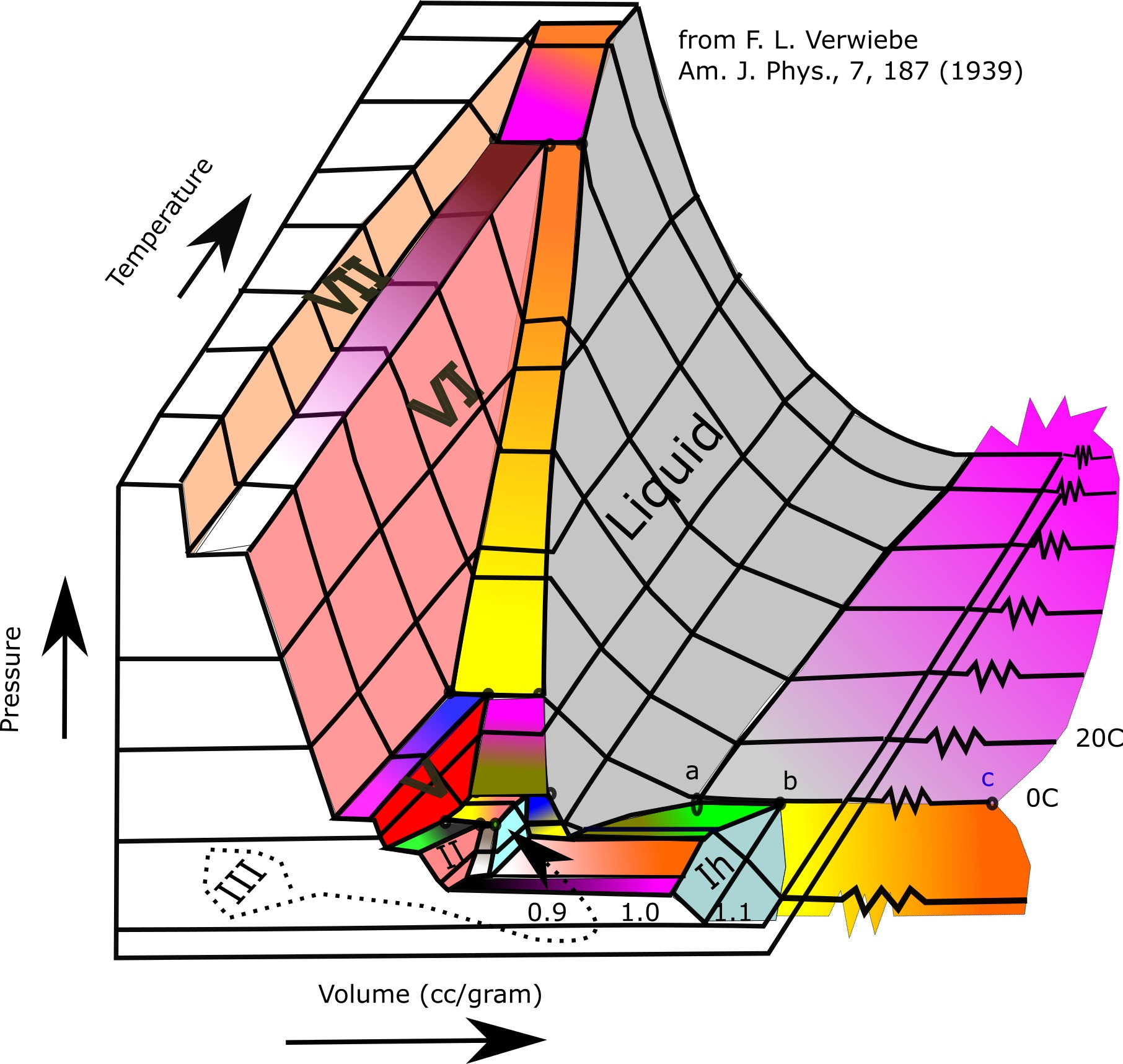 The "3D" representation of various ice's relationships with each other and with liquid and gaseous water are shown in a stylized manner.